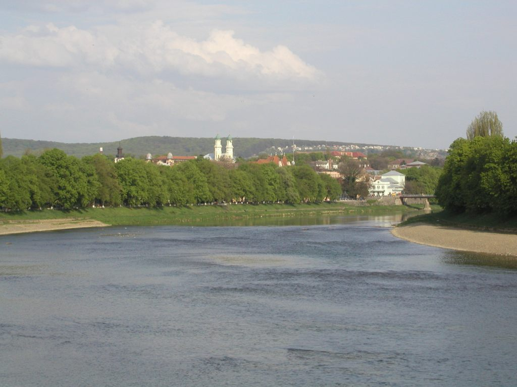 The Uzh River in Uzhhorod.